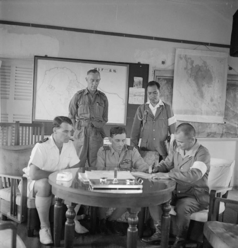 Group Captain Geoffrey Francis DSO, DFC, and Lieutenant Commander R A Inskip watch as Japanese Vice Admiral Kogure appends his signature to the document marking the formal take over of Seletar airfield, Singapore, from the Japanese.